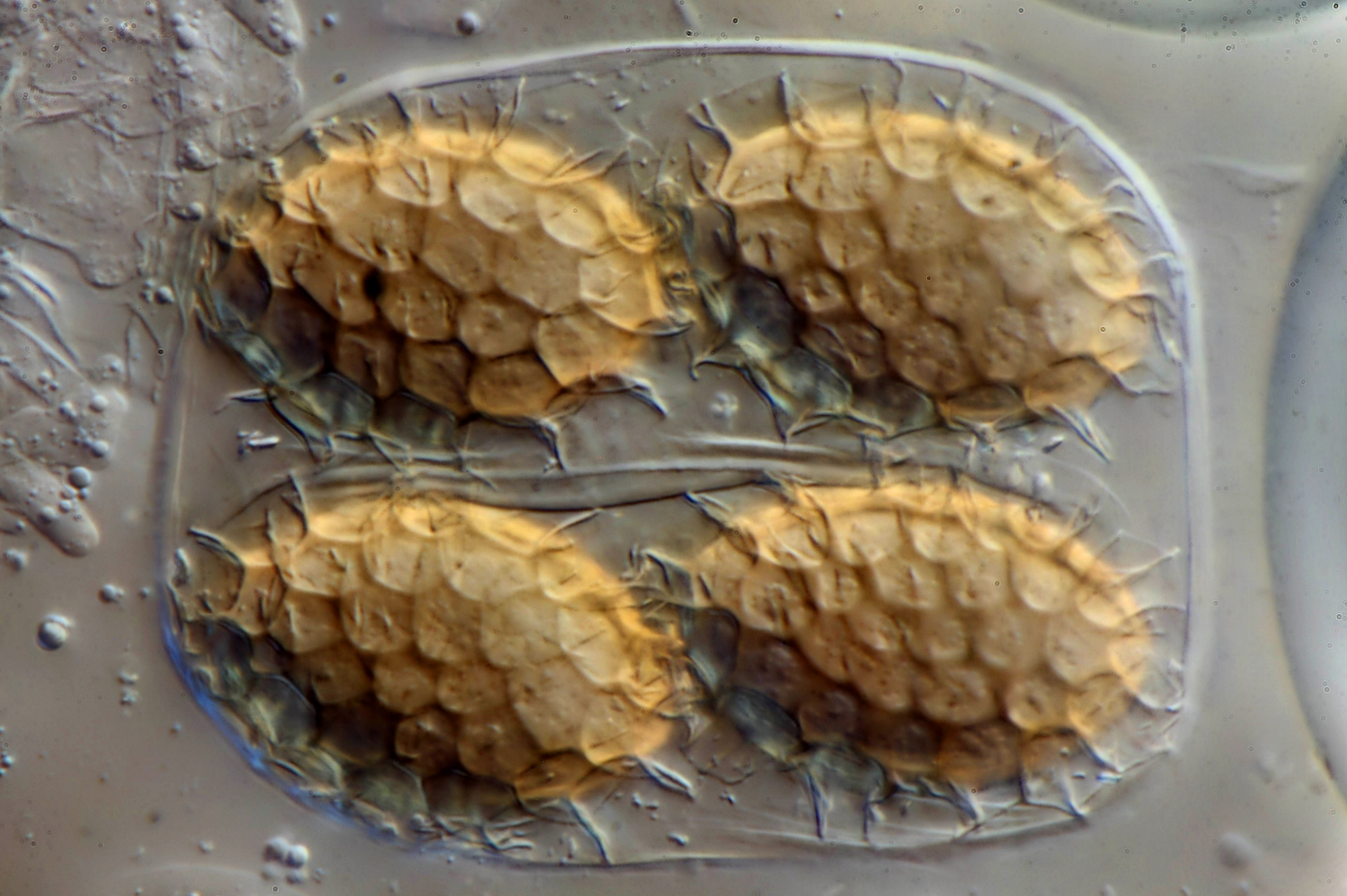 Tuber oregonense Trappe, Bonito & P. Rawl.